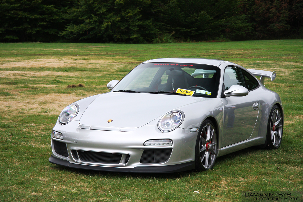 MkII 997 GT3 looks really good in silver.